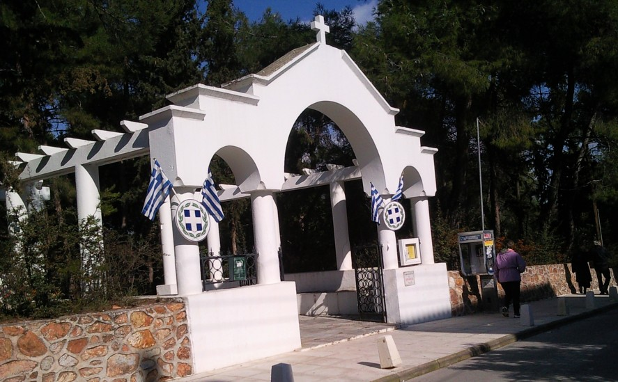 aghia filothei